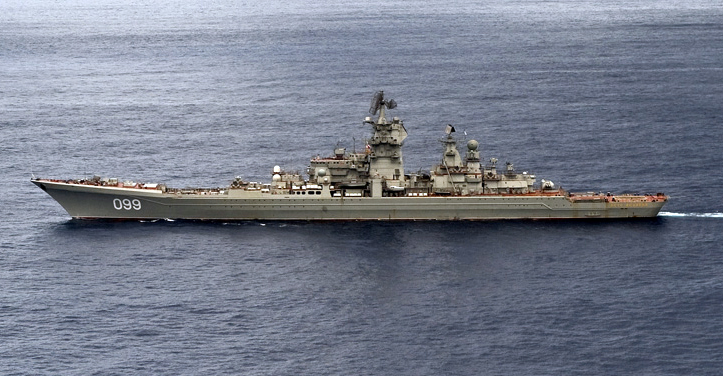 Battlecruiser Pyotr Velikiy.